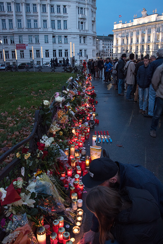 Solidarity with the victims of the Paris attacks in November 2015 in Vienna (in front of the French Ambassy)